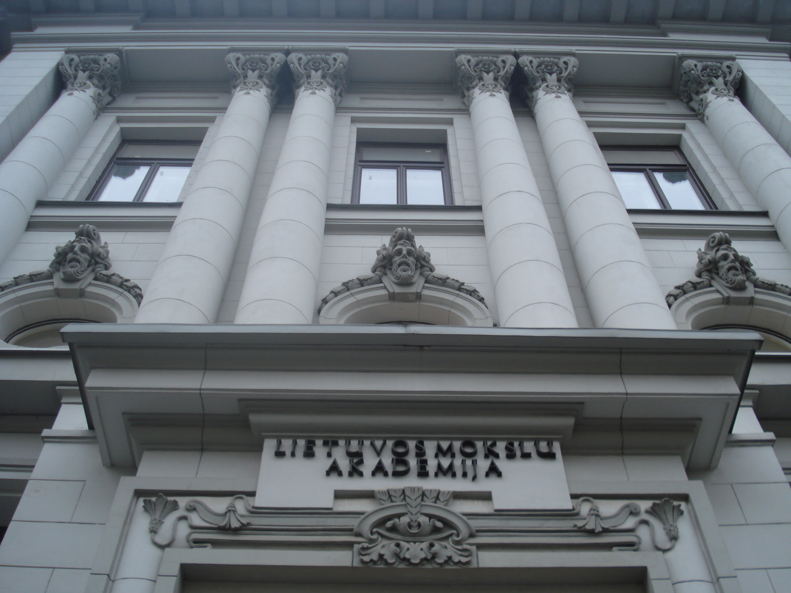 The Lithuanian Academy of Sciences (Gedimino prospektas 3) in Vilnius. Board over main entrance. Build 1906—1909 as Russian state bank (архитектор Михаил Прозоров)